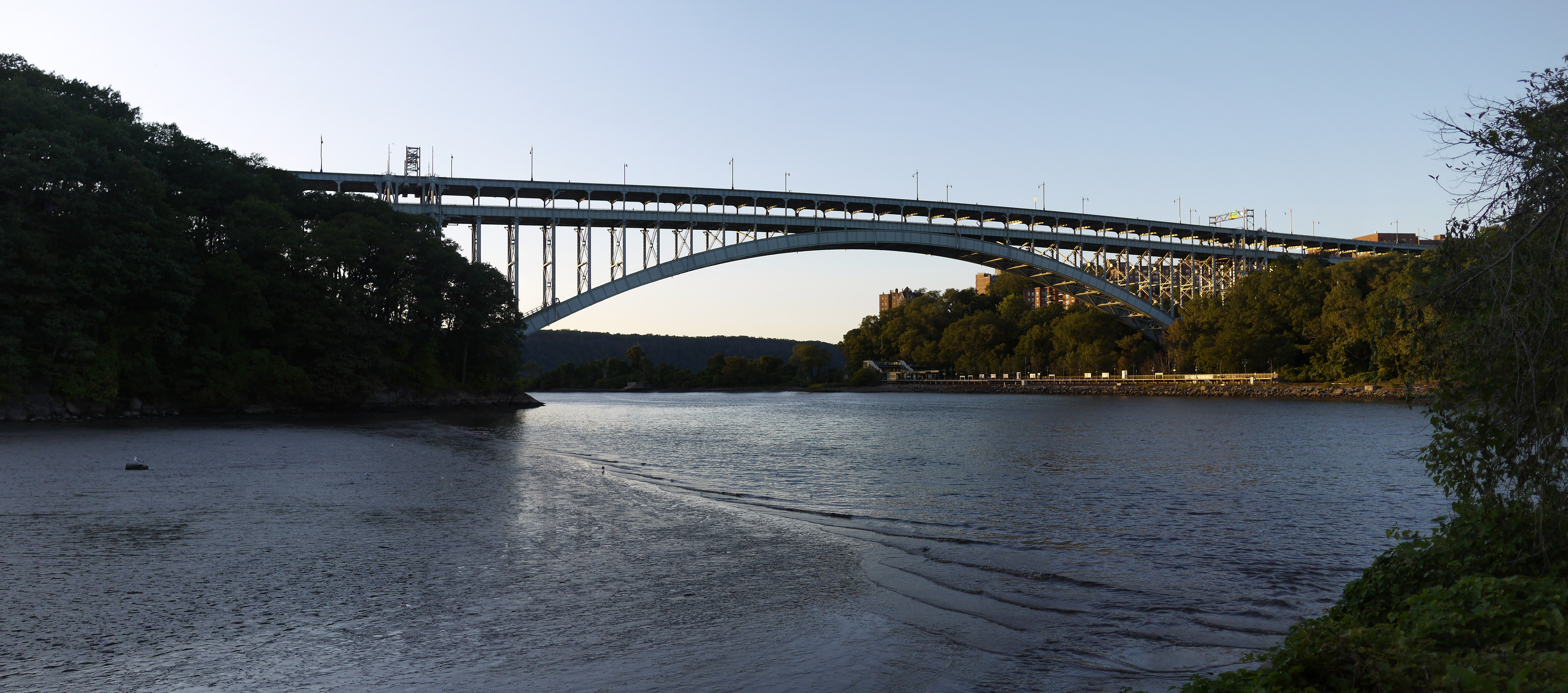 Henry Hudson bridge